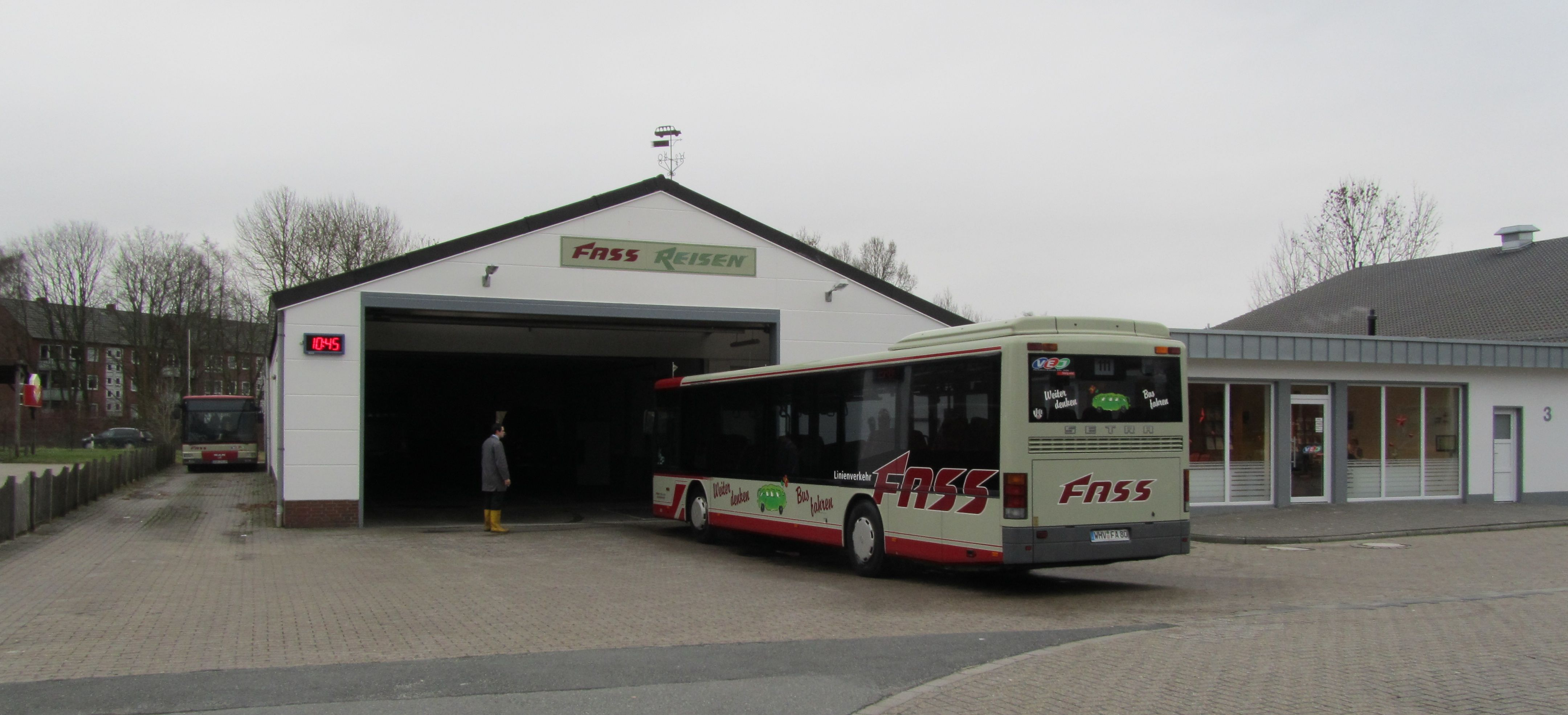 Fass Reisen (bus travel), Wilhelmshaven, Germany.